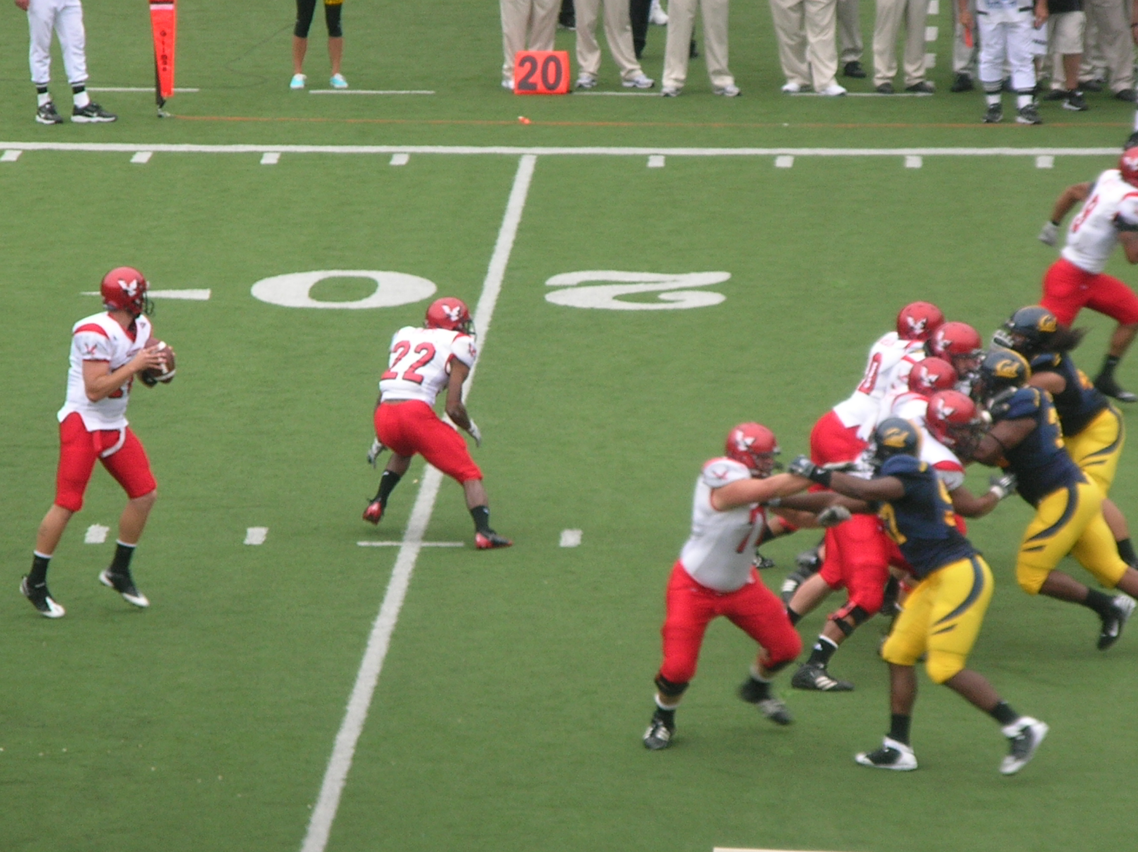 The Eastern Washington Eagles on offense during a road game against the California Golden Bears. The Golden Bears won 59-7.